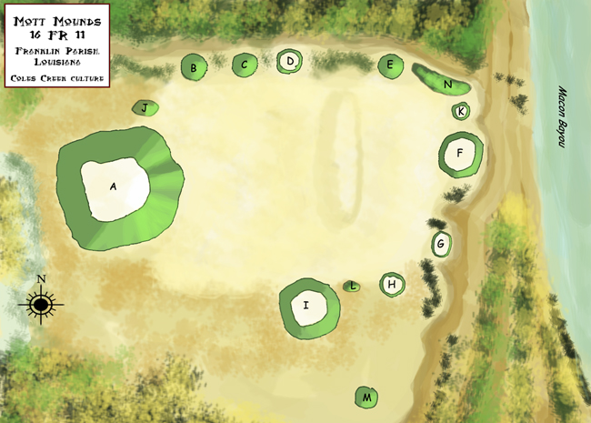 The layout of the Mott Mounds Site, (16 FR 11), a Coles Creek culture mound site in Franklin Parish, Louisiana.